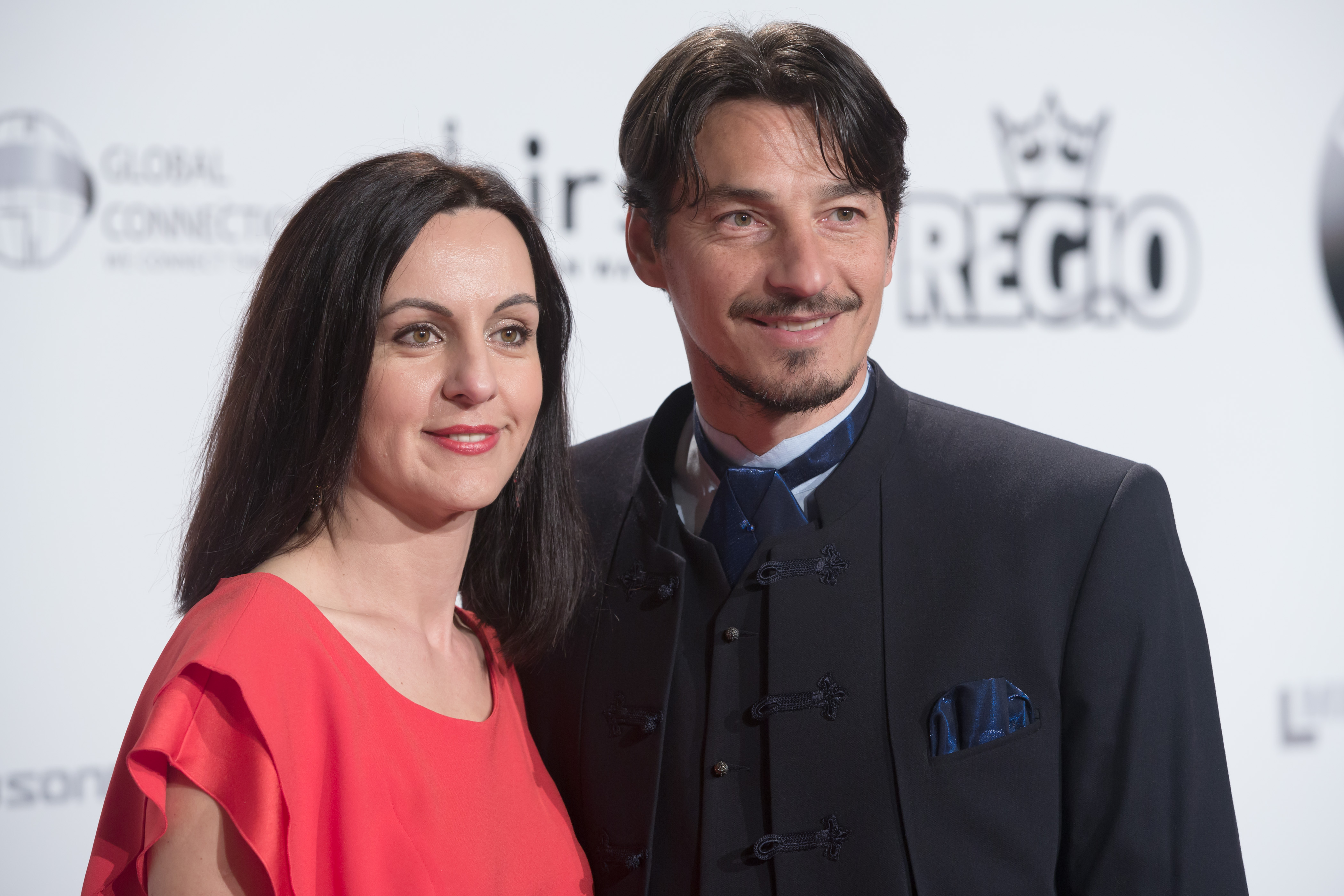 Anni and Ivica Vastić on the red carpet of the Filmball Vienna at Rathaus, Vienna, Austria.